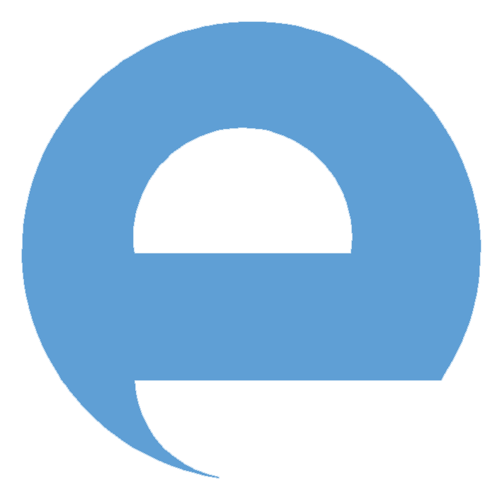 EuskoTren Logo